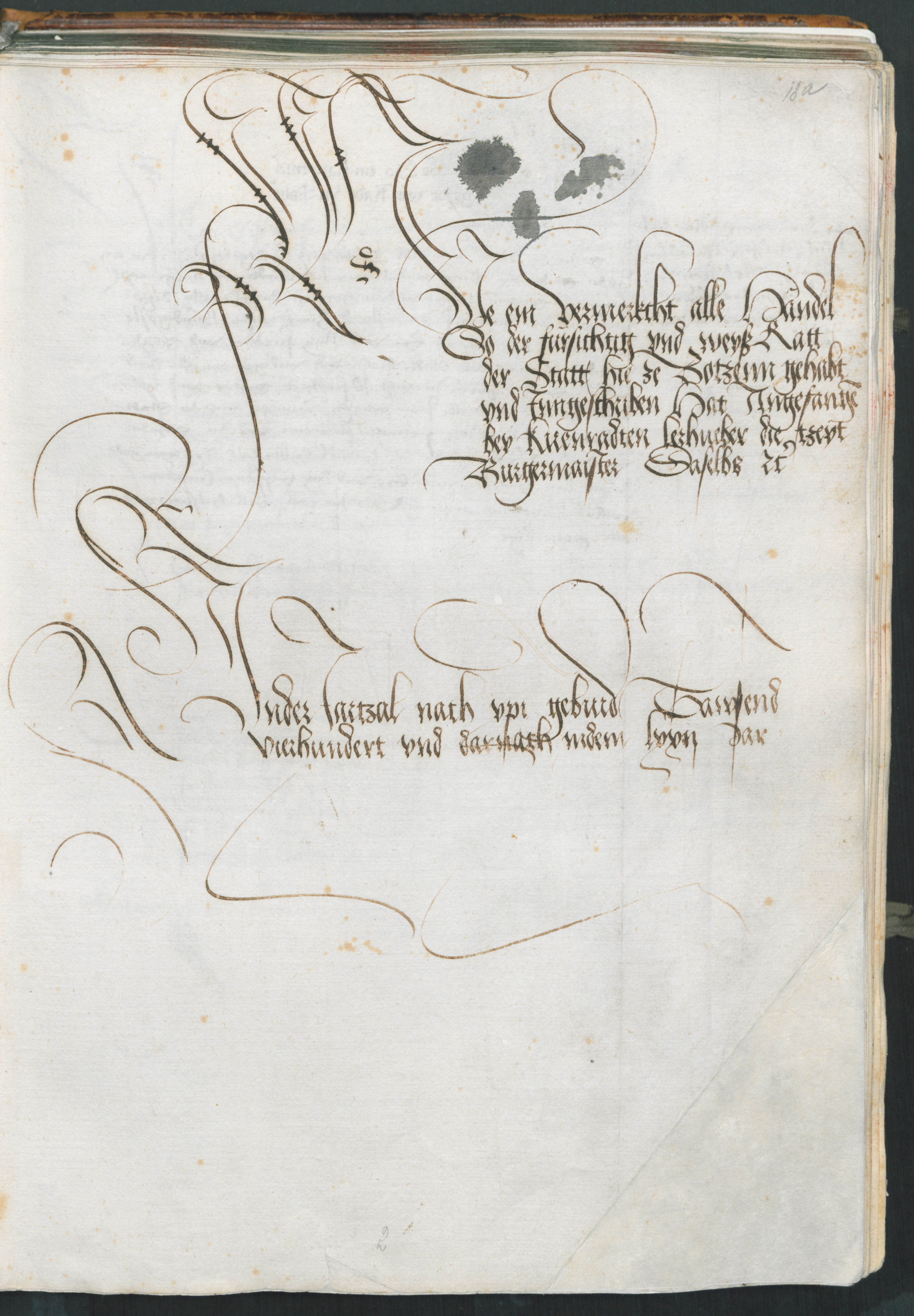 Coverplate of the Bozner Stadtbuch Hs. 140, late 15th century